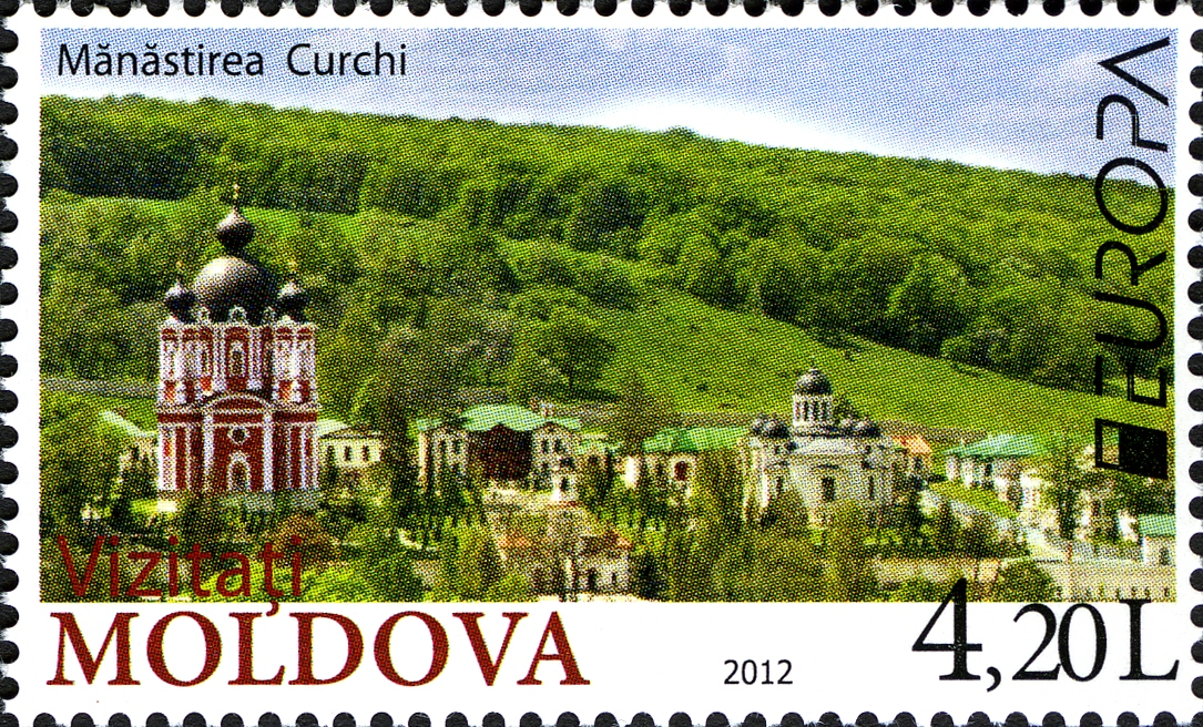 Stamps of Moldova